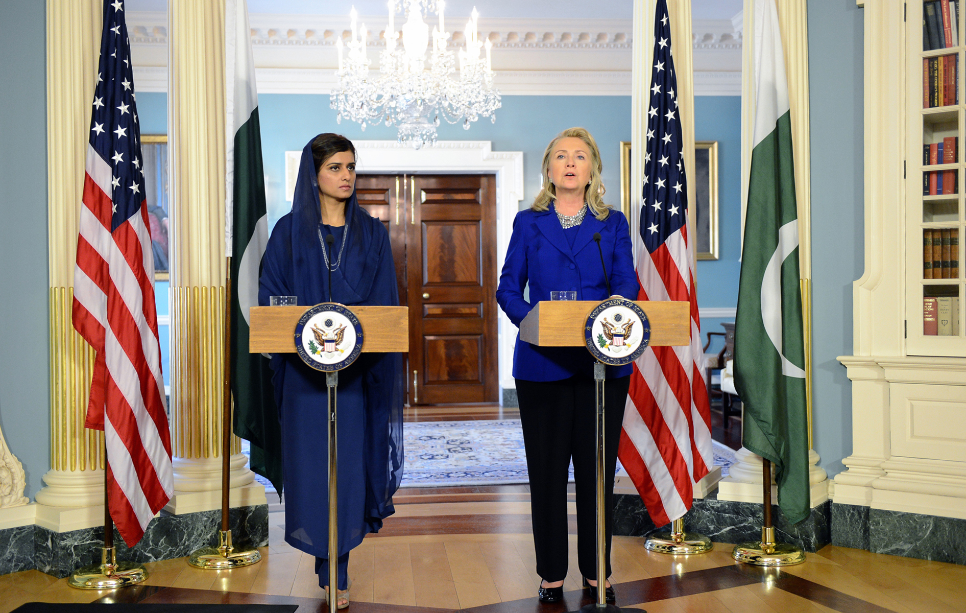 U.S. Secretary of State Hillary Rodham Clinton meets with Pakistani Foreign Minister Hina Rabbani Khar at the U.S. Department of State in Washington, D.C., September 21, 2012. [State Department photo/ Public Domain]